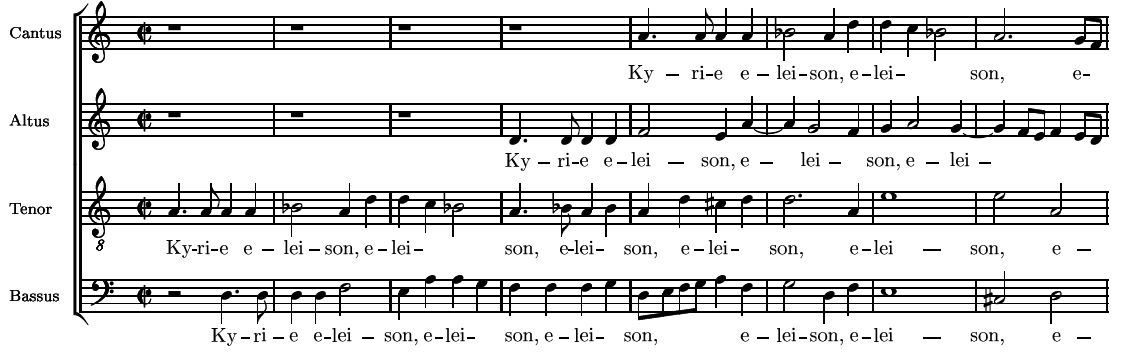 Excerpt from the Lyrie of the Missa brevis by Antonio Lotti.